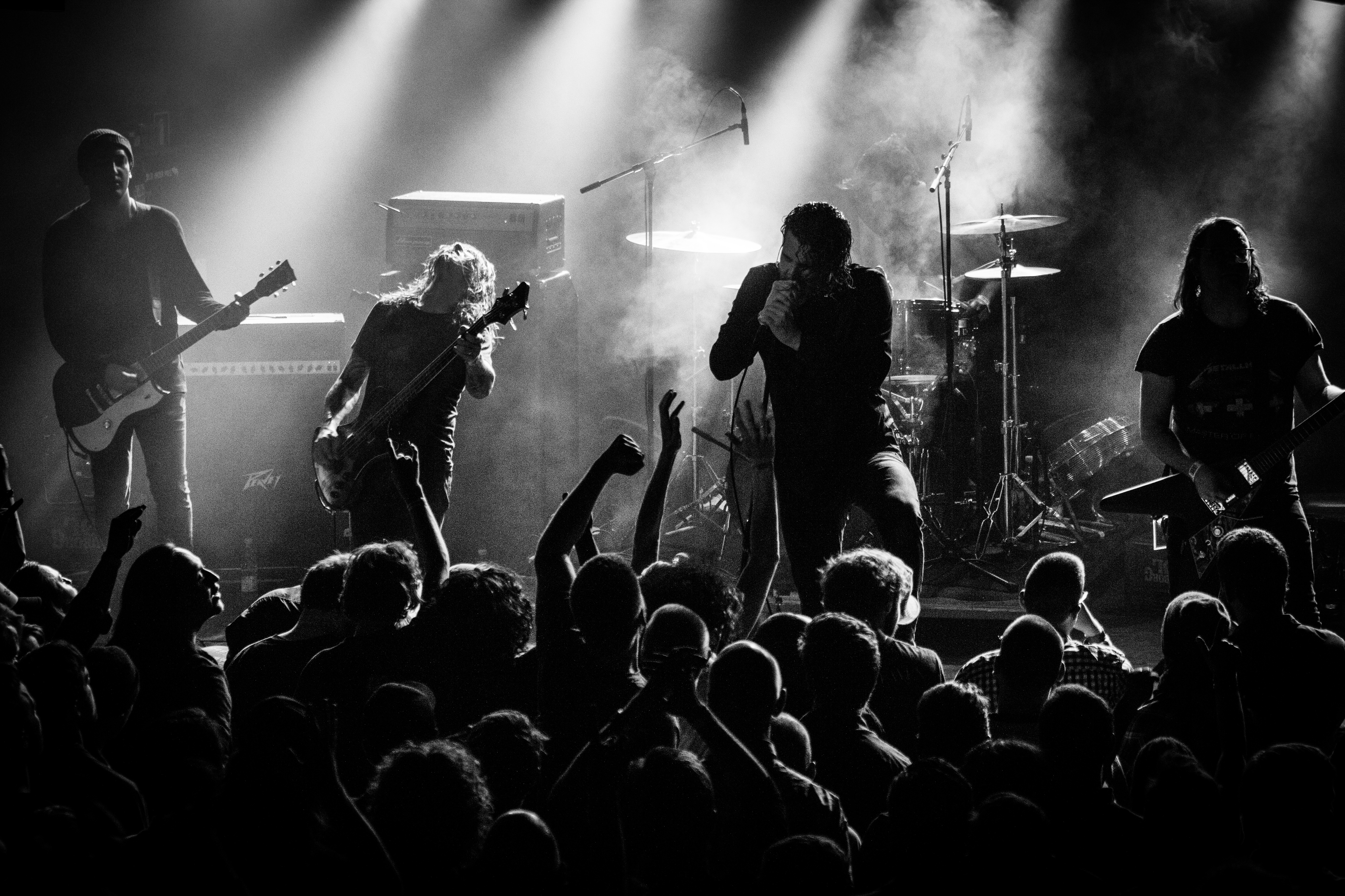 Deafheaven performing live at A Colossal Weekend 2017, Copenhagen, Denmark